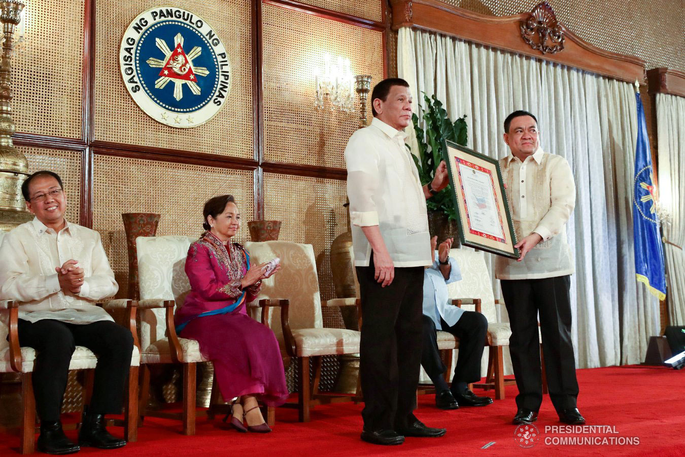 President Rodrigo Roa Duterte receives the result of the plebiscite for the Bangsamoro Organic Law from Commission on Elections Chairman Sheriff Abas during a ceremony at the Malacañan Palace on February 22, 2019.